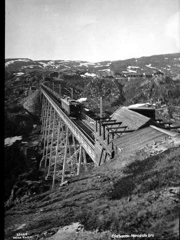 Norges Statsbaner El 4 on Norddalsbroen on Ofotbanen, in Narvik, Norway.